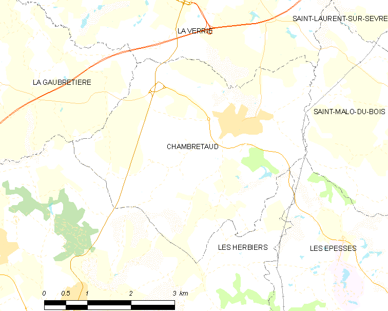 Map of French municipality Chambretaud